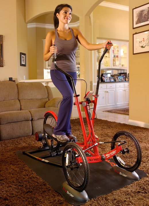 StreetStrider Universal Trainer Stand works with all adult StreetStriders.